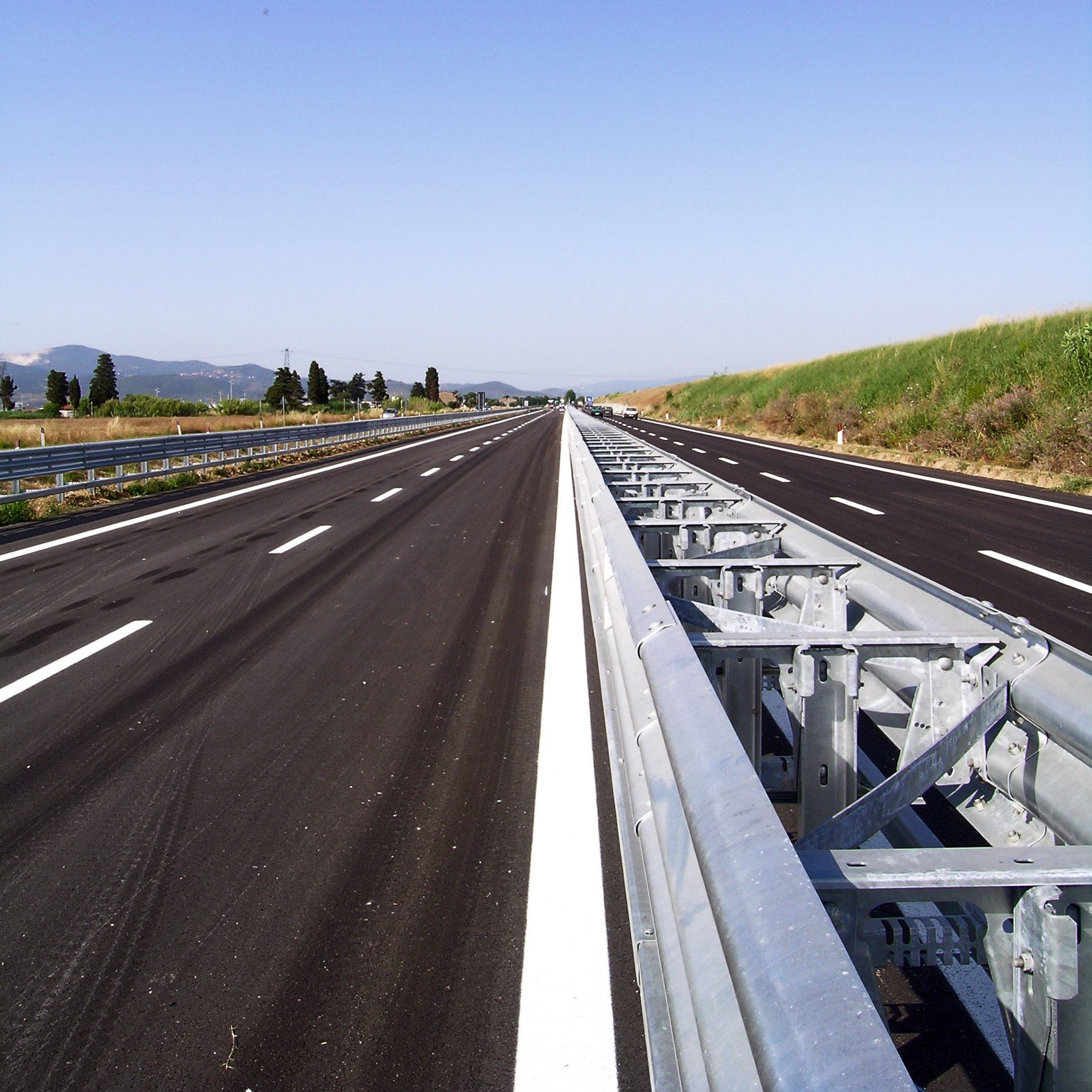 SS398, Tuscany, Italy. Photo taken in the opening day, shortly after the widening of the second section, between Colmata and the border of Piombino municipal district (from 2 to 4 lanes).